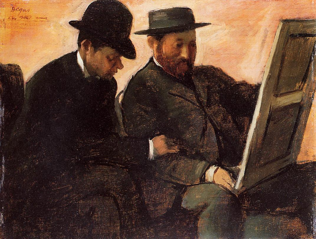 The Amateurs (1878-1880) by Edgar Degas, oil on panel, private collection